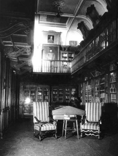 Interior of the Przeździecki Estate Library in 6 Foksal Street in Warsaw.[1] Burned down on September 25, 1939 as a result of severe aerial bombardment by the Germans (incendiary bombing).[1]